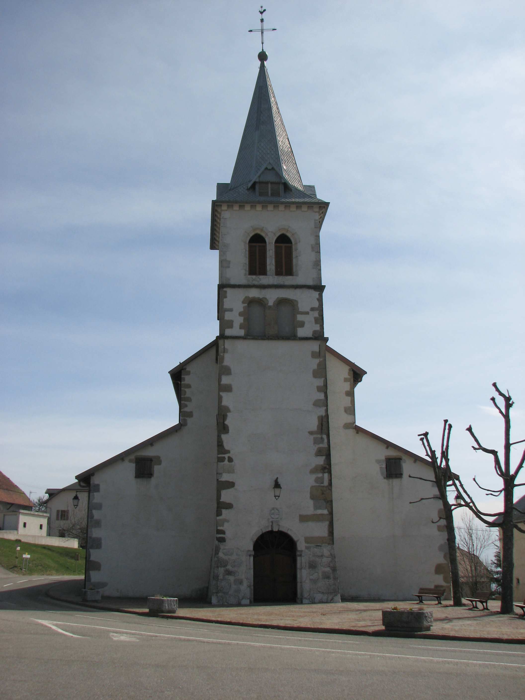 The church of Groisy